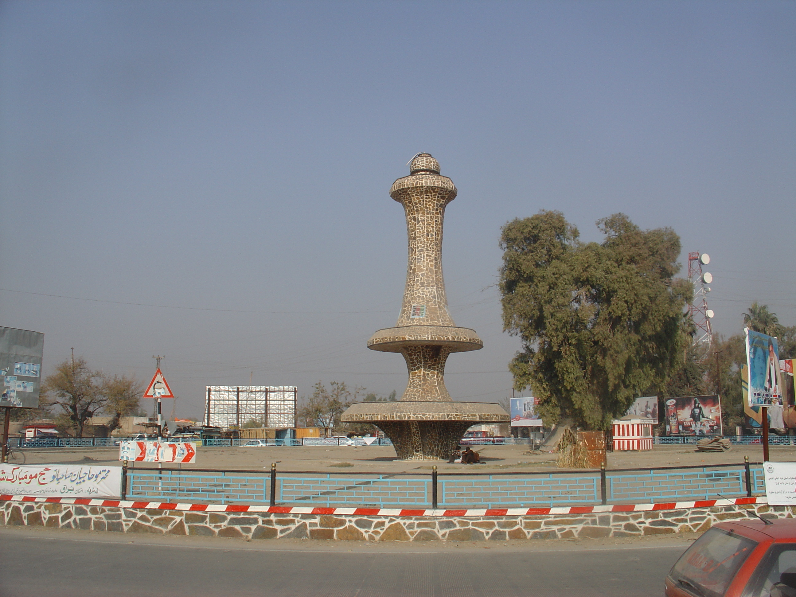 In Jan 2010 Afghanistan Officially named a main intersection in Jalalabad after Shaheed Sayed Yousef Mirranay Monument Jalalabad.